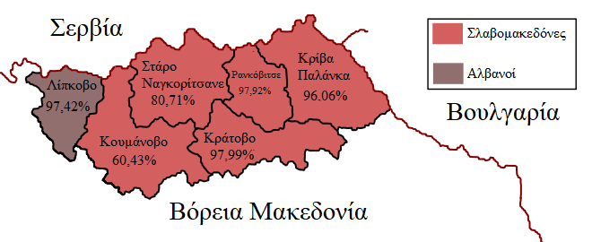 Political map of the majority ethnic groups in the Northeastern Statistical Region of North Macedonia in Greek language.